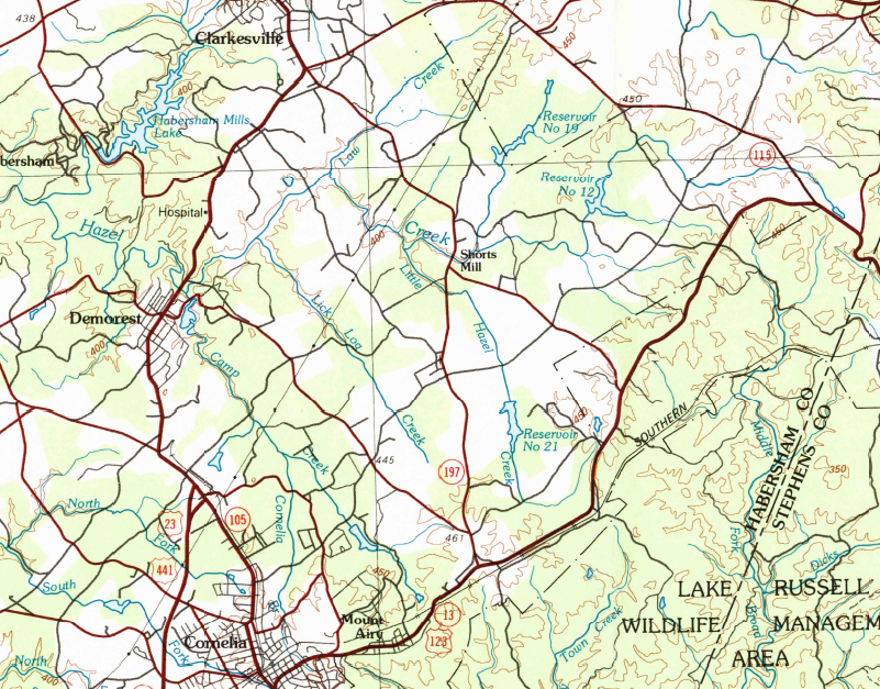 HUC 031300010205 topographical map, using the 1981 Toccoa 30x60 grid, showing Hazel Creek and the Soque River